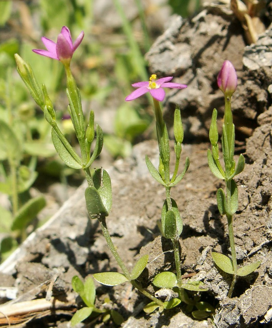 Centaurium pulchellum